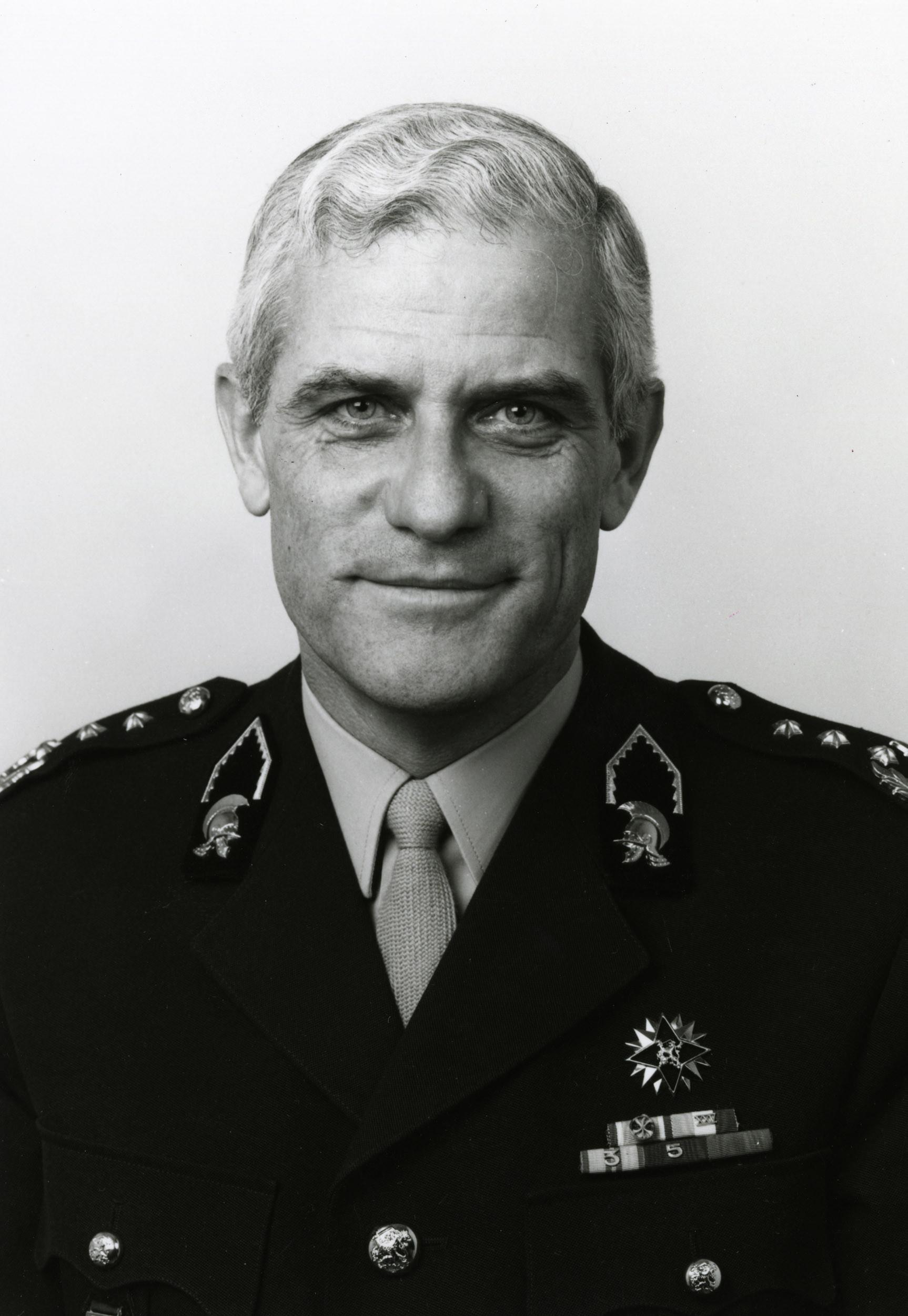 Peter Graaff (1936-2014), Dutch army general (lieutenant-general on picture)